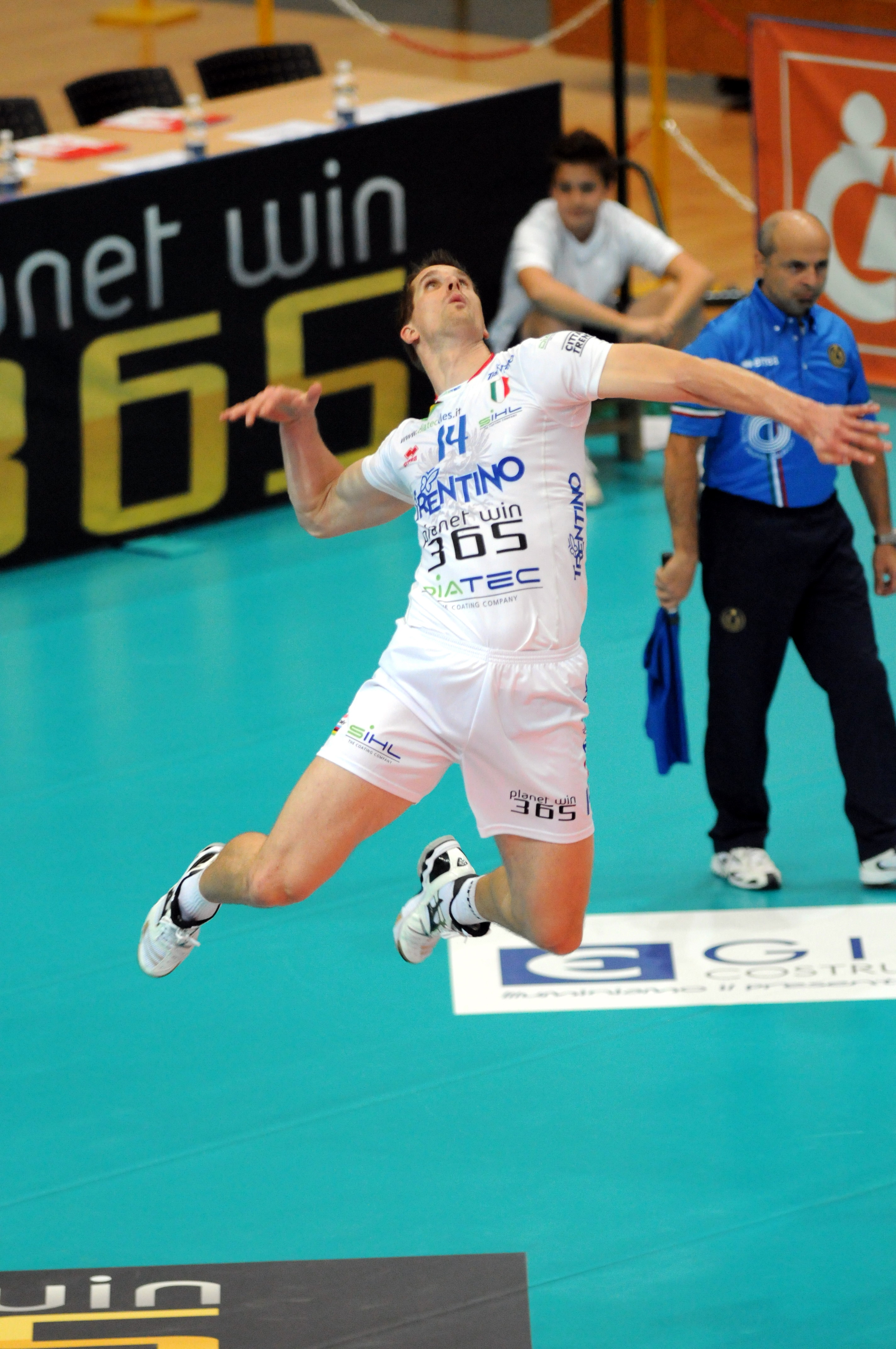 Picture taken during the match with Cai Teruel